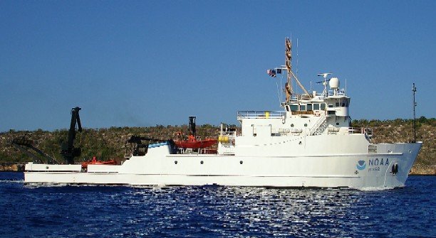 This image was retrieved from a U.S. Government website: in reference to this ship and is not covered by copyright.